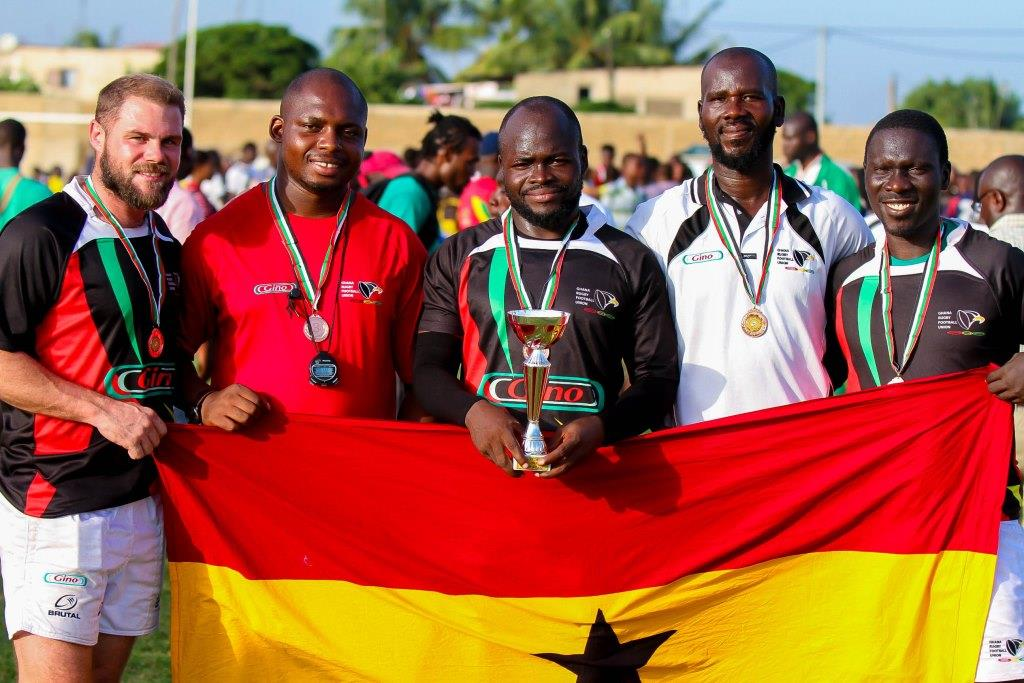 The Ghana national men’s sevens Rugby team managed to lift the bronze cup in the 2016 Africa Rugby “Africa Cup West” tournament in Lome, Togo on 28 May 2016. From left to right: Dan Hoppe (Player-coach), Simba Mangena (head coach), Sani Alhassan (Captain), Amuzuloh Salim (Assistant coach) and Clement Dennis (Player-coach).